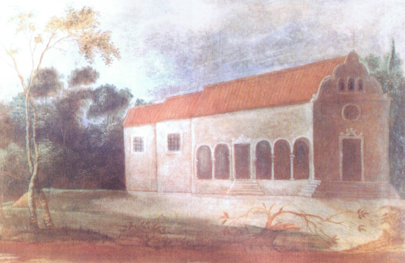 Nazaré, Portugal, Síto, old church of Nossa Senhora da Nazaré, paintig first quarter of the 17th century; church's origin of 1377